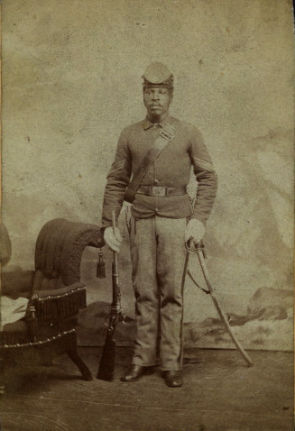 Cropped version of File:Sergeant John Harris, 10th United States Cavalry Regiment which was uploaded from Flickr Flickr-no known copyright restrictions Metadate from SMU Central University Library as posted on Flickr Title: [Sergeant John Harris, 10th United States Cavalry Regiment] Creator: Soule, William Stinson Date: ca. 1868 Part Of: Lawrence T. Jones III Texas photography collection Description: Sergeant Harris, posed with a Sharps repeating rifle, was a member of the 10th U.S. Cavalry Regiment, one of the four original 'Buffalo Soldier' units in the U.S. Army. He served in Texas and the Indian Territory during the numerous conflicts with the Comanches and Kiowas on the southern plains. Physical Description: 1 photographic print on carte de visite mount; 10 x 6 cm. File: federal_army-2-11c.tif Rights: Please cite Southern Methodist University, Central University Libraries, DeGolyer Library when using this image file. A high-quality version of this file may be obtained for a fee by contacting . For more information, see: View the Lawrence T. Jones III Texas Photographs at